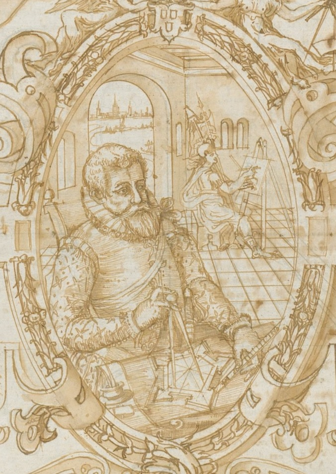 Self portrait by Pierre Lepoivre. God of war is painting in the background.